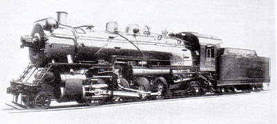 Builder's photo of steam locomotive Mikashi-1661 built for the South Manchuria Railway in 1935 by Kisha Seizo Kaisha.